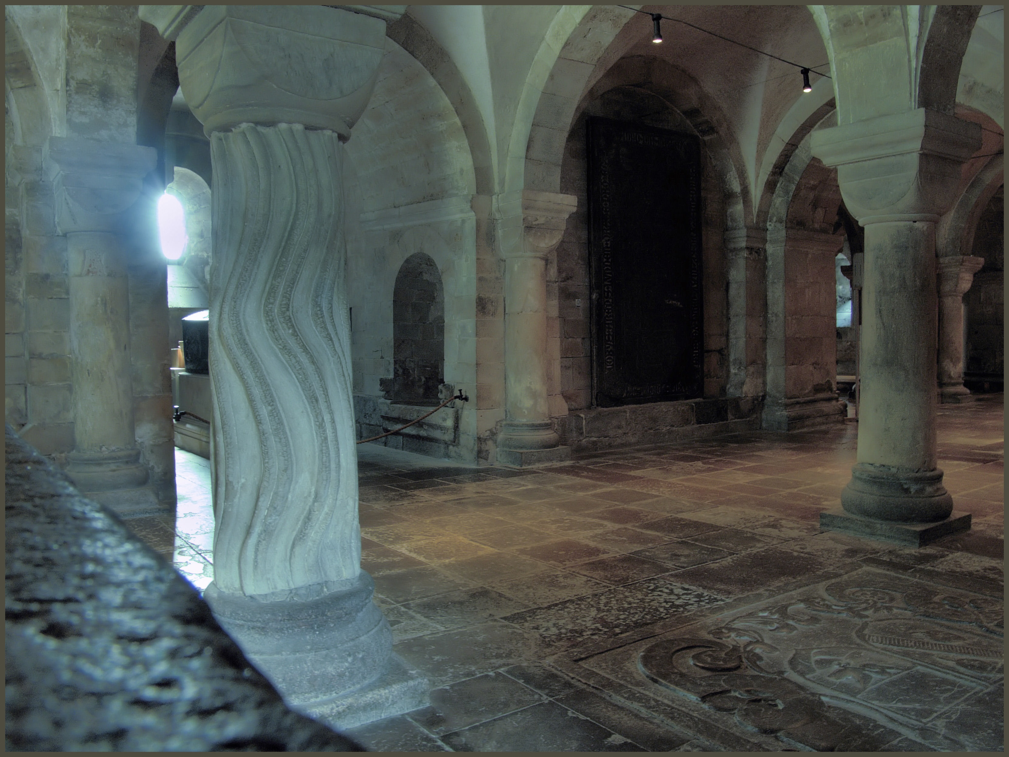 The Cathedral in Lund, Sweden North of Malmö in the province of Skåne is the most significant Romanesque building in Sweden. The crypt from the 12th century is the oldest part.